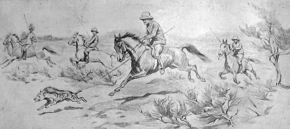 Engraving of a hunter (Lord Creighton) on horseback spearing a striped hyena in Jaipur.